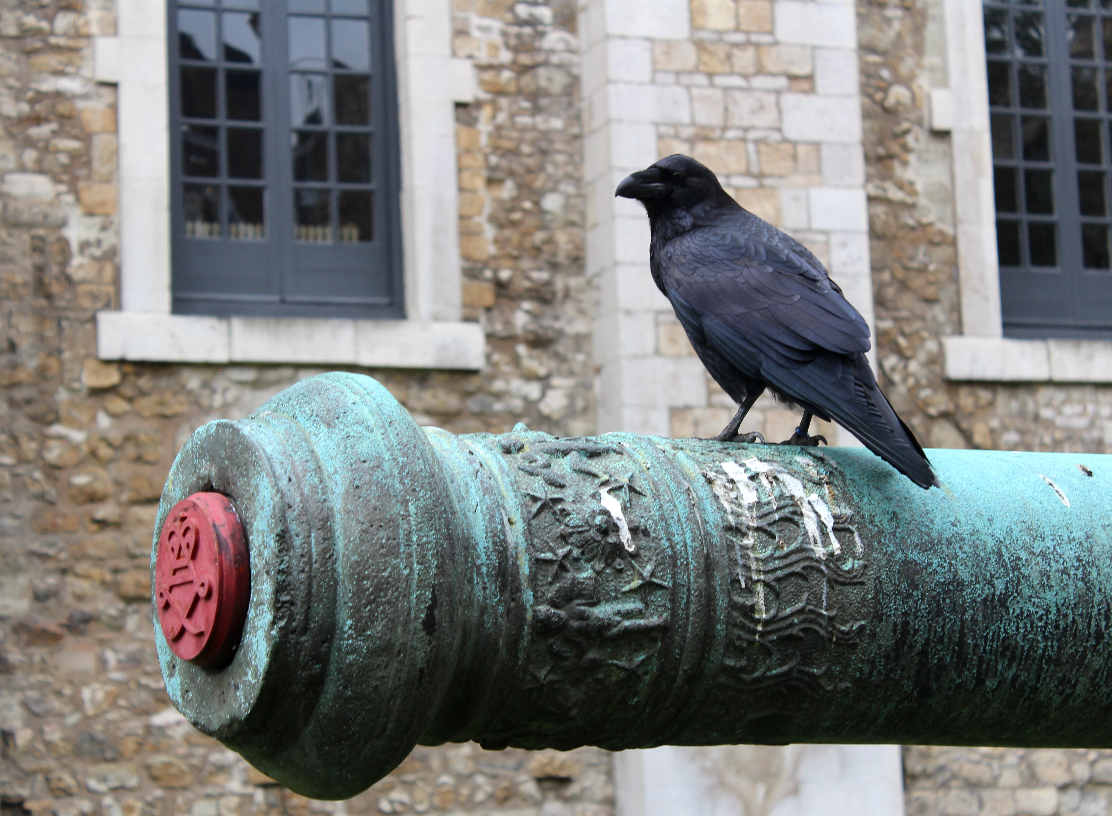 Raven, perched on a cannon at the Tower of London. Legend has it that if the ravens (Corvus corax) should leave the tower, then the tower will fall. Charles II ordered that the Constable of the Tower shall ensure that there are always at least six ravens at the tower.[1] The cannon, probably a 24 lb piece of Flemish artillery, dates to about 1607 and brought to England from Malta in about 1800. The carriage (not visible in the picture) was manufactured in 1827. The White Tower is visible in the background.